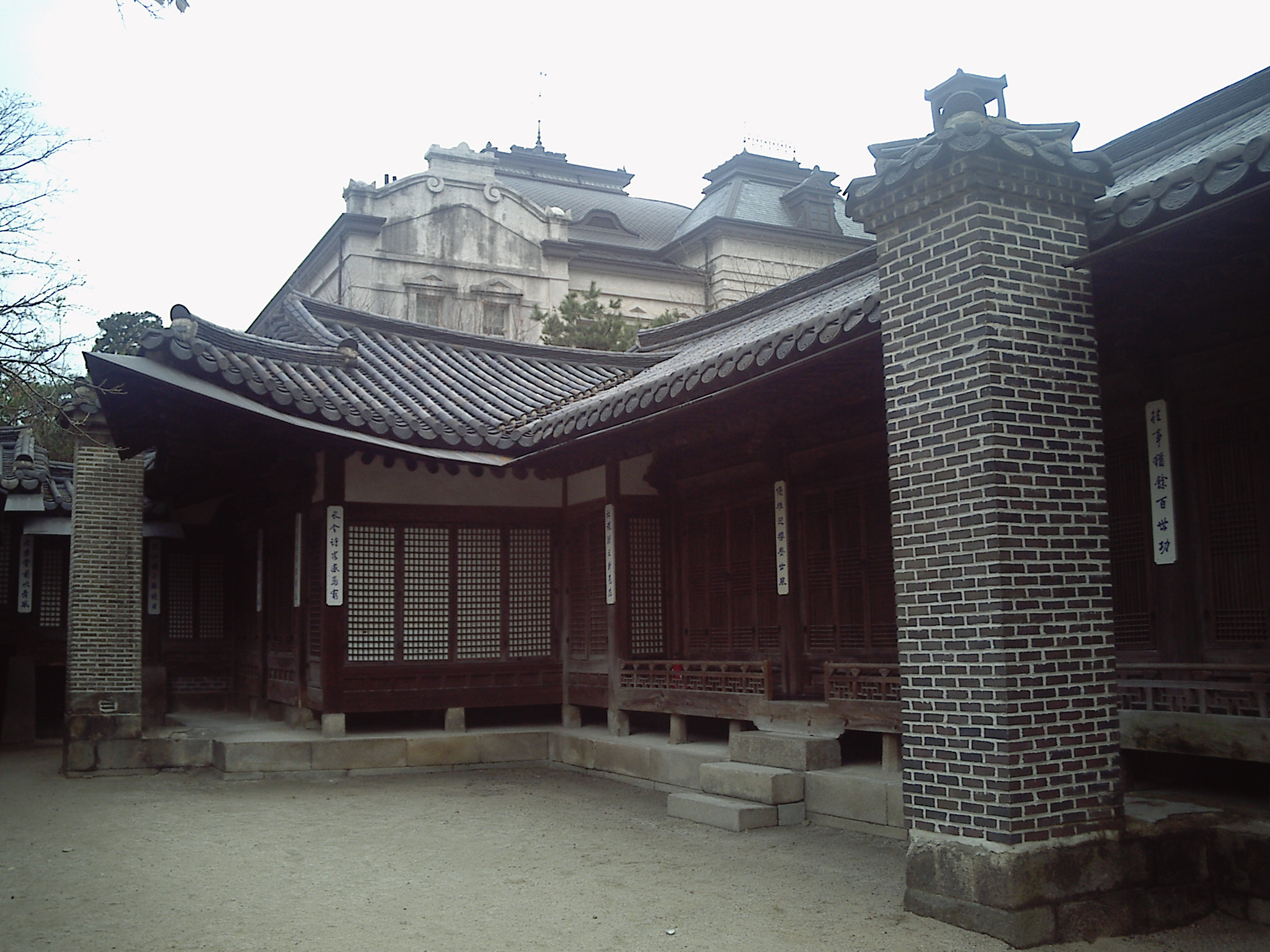 I created this image.